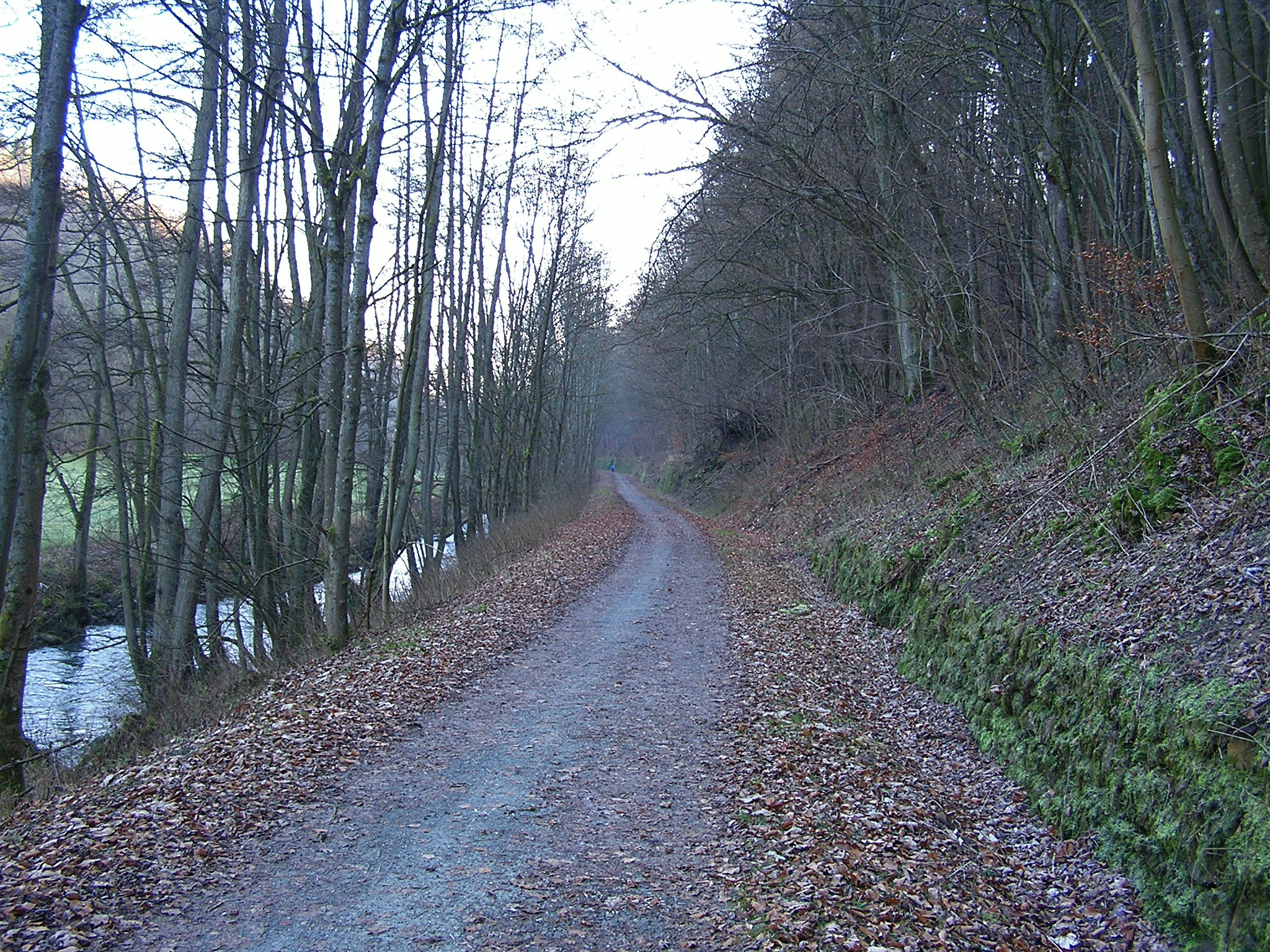 The Weiltalweg (Weil valley trail) near Freienfels on the track of the former Weiltalbahn (Weil valley railway).